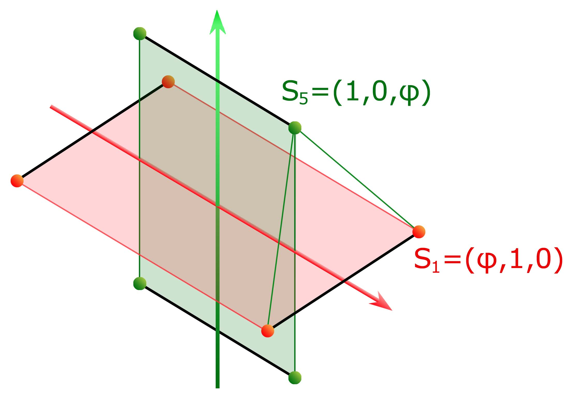 Computation of the coordinates of the 12 vertices of an icosahedron. Step 2